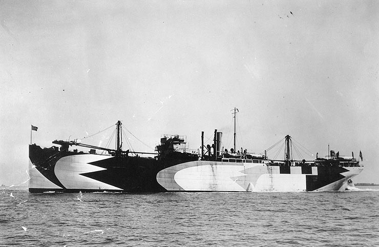 Cargo ship SS Volunteer in San Francisco Bay, California, at the time of her completion, prior to her US Navy service as collier USS Volunteer (ID-3242).